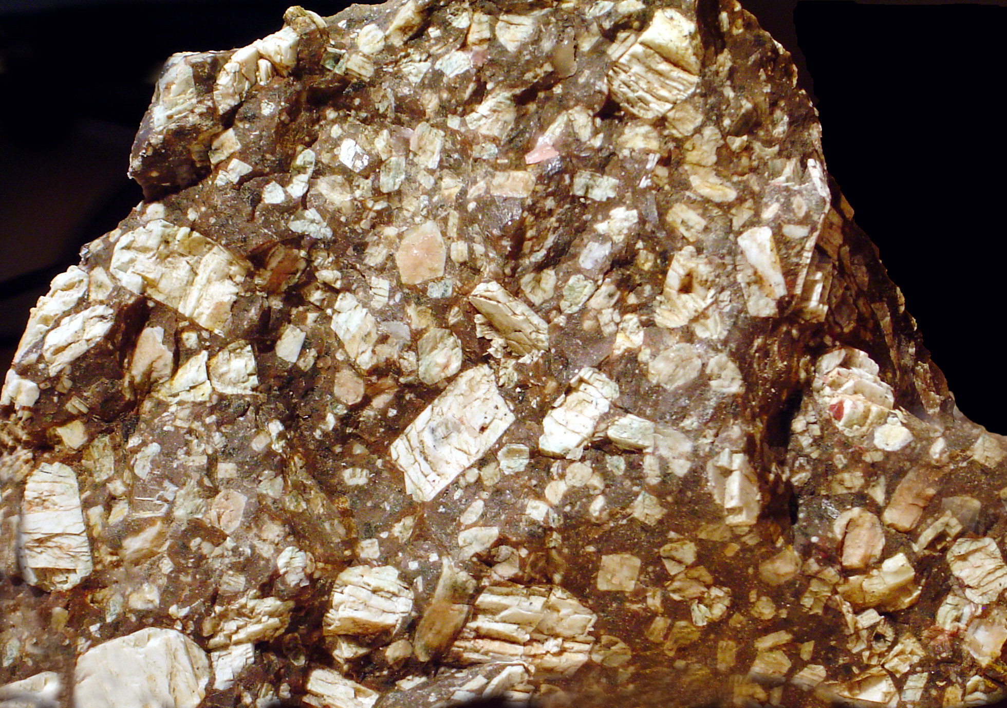 These mineral images are free to use how you wish.